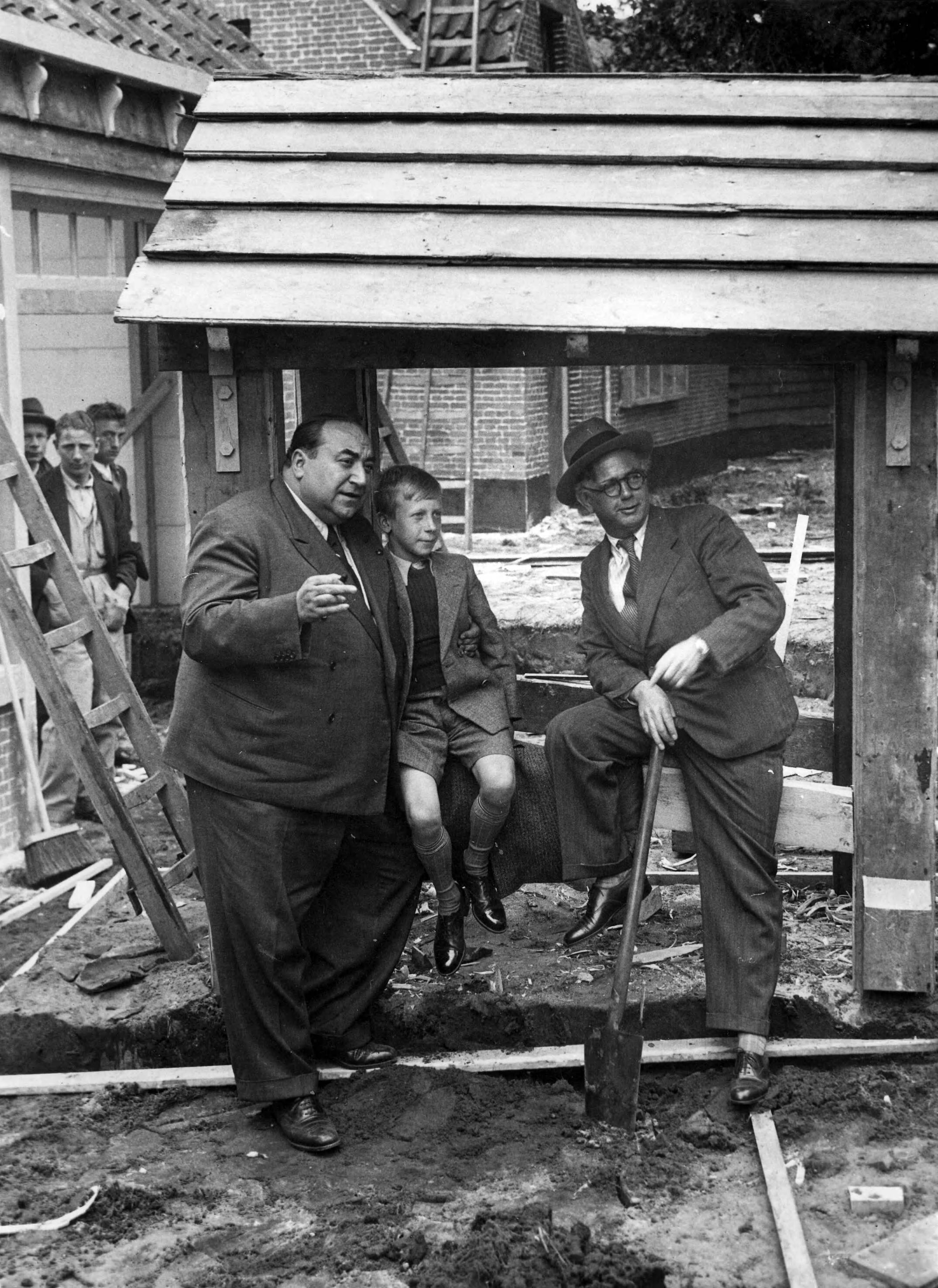 Right: Dutch writer A.M. de Jong on the filmset of "Merijntje Gijzen" (The Hague, 1936). Left: film director Kurt Gerron, middle: "Merijntje" (Marcel Krols)